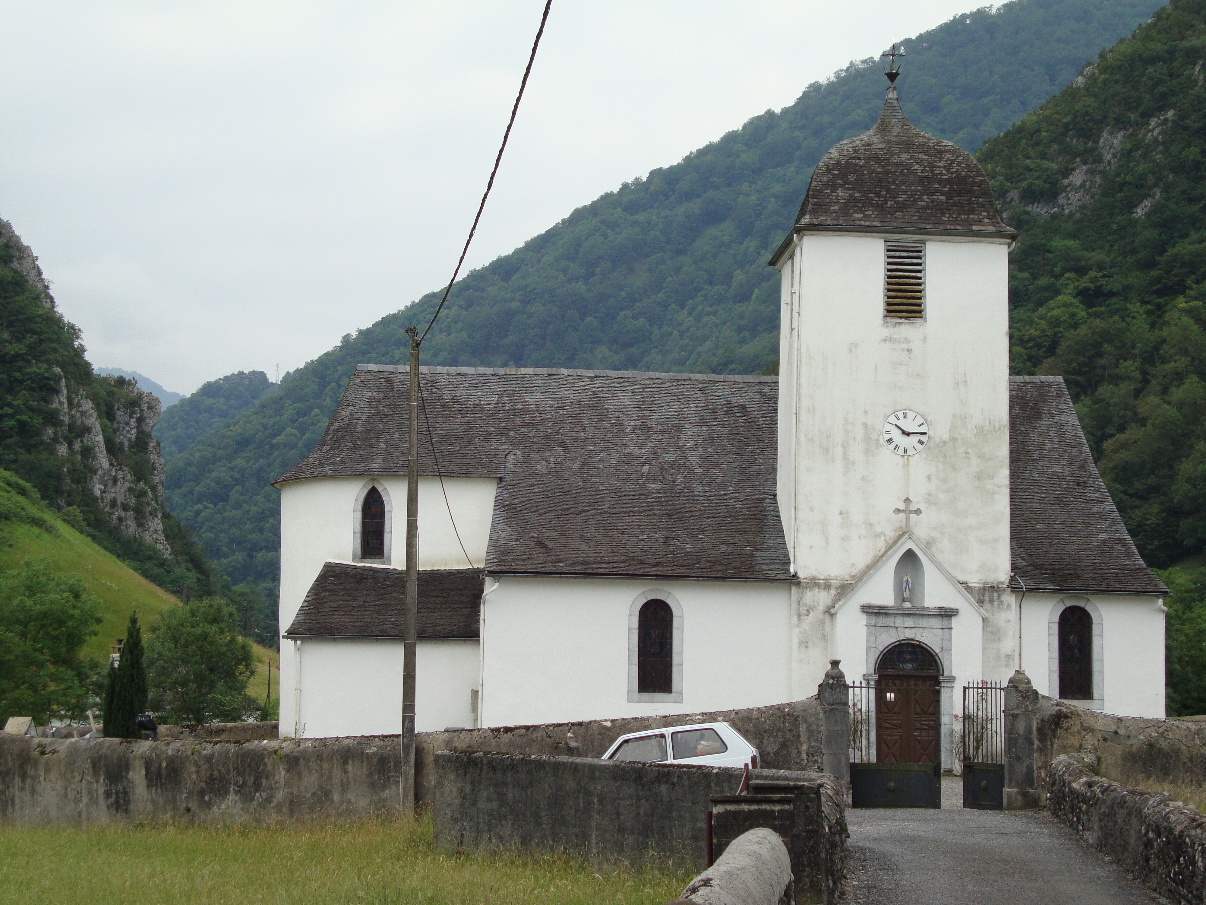 Escot (Pyr-Atl, Fr) church